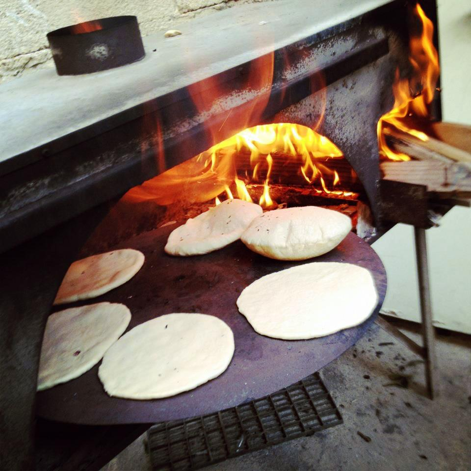 Events in Israel